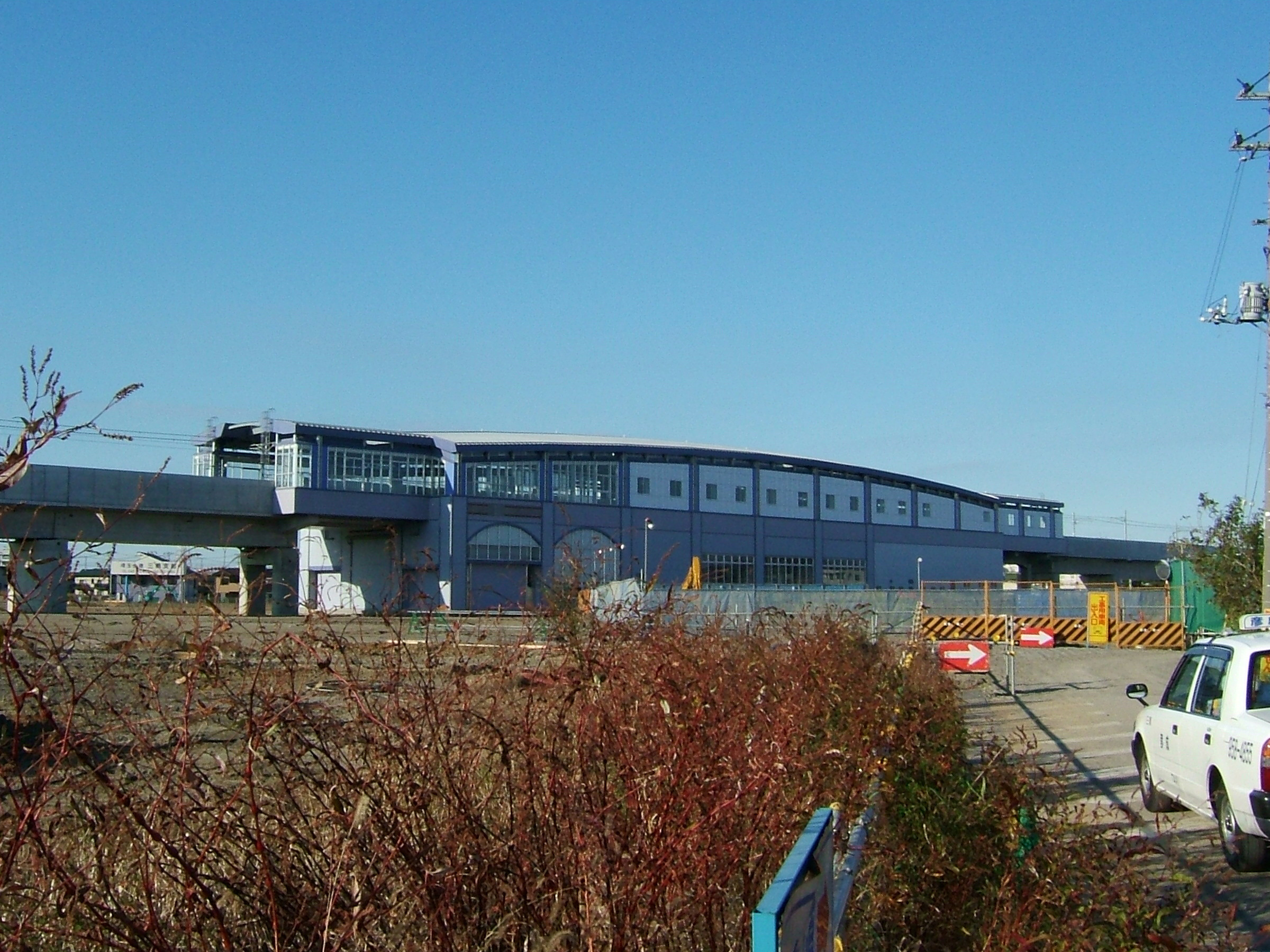 Metropolitan Intercity Railway Misato-Chuo Station